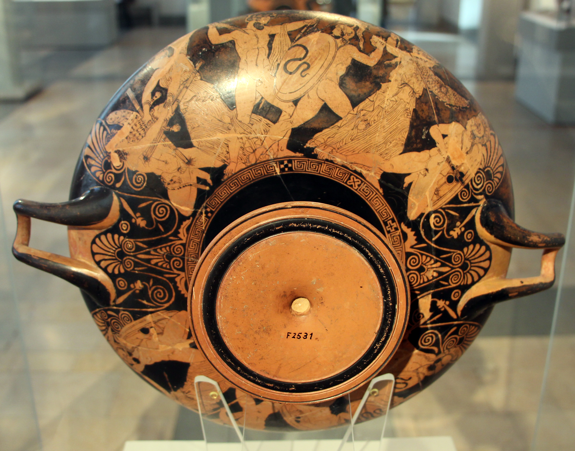 Ancient Greek pottery in the Antikensammlung Berlin